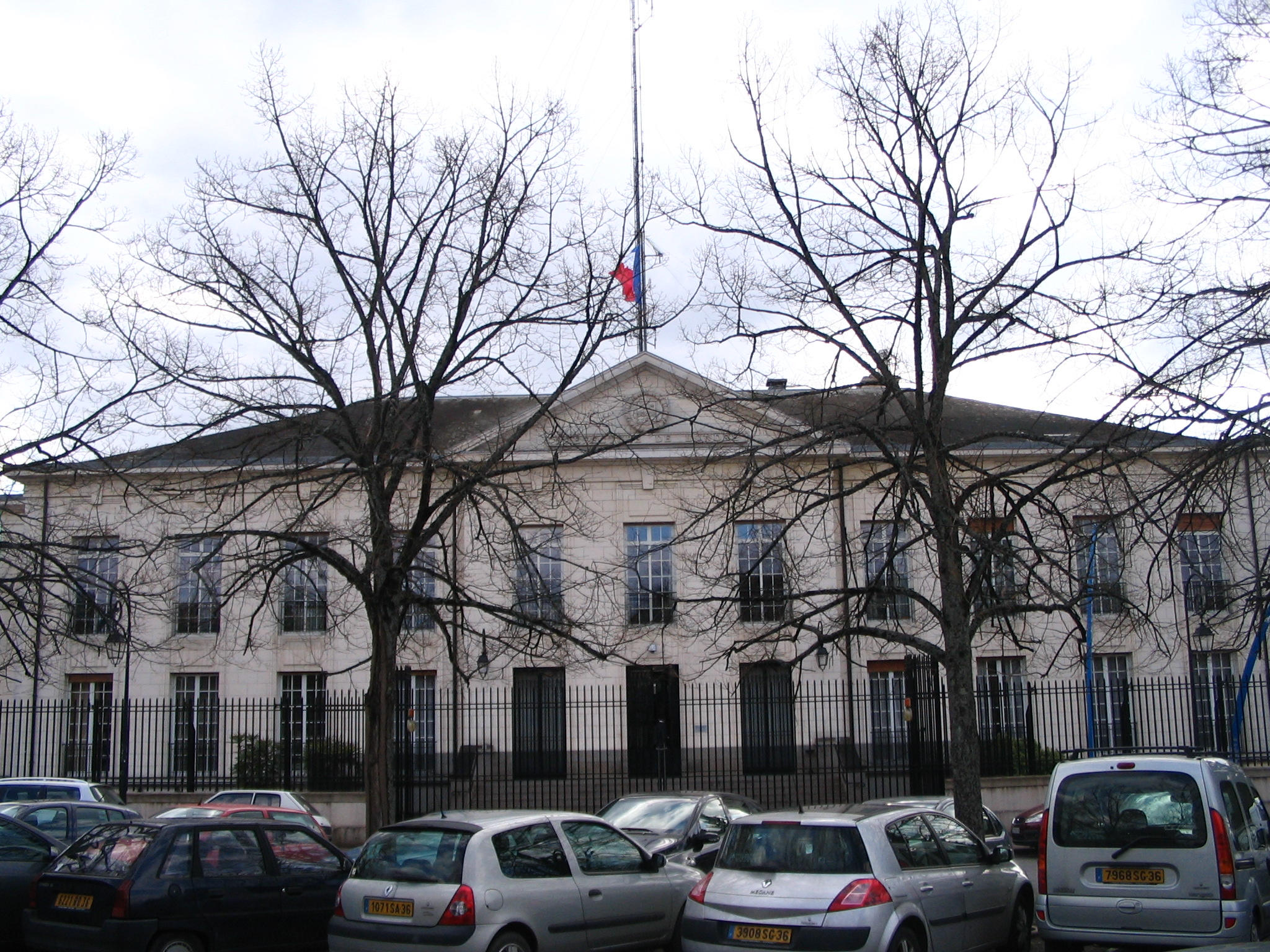 The préfecture (Government's local representative's building) of Châteauroux, Indre, France.